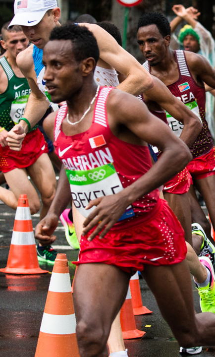 Men's marathon at the 2016 Summer Olympics